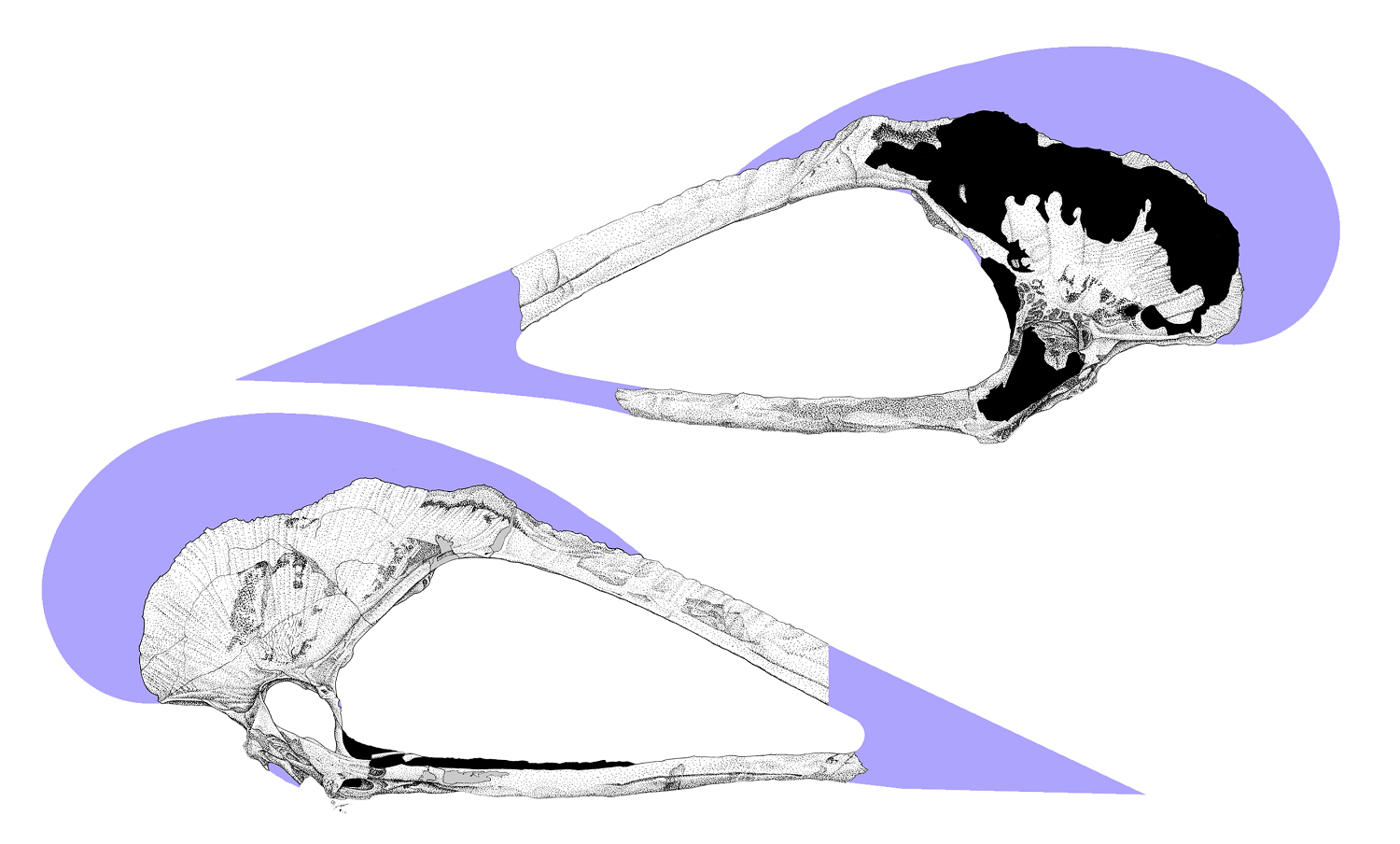 Reconstruction of the referred skull of Tupuxuara deliradamus in left and right views.